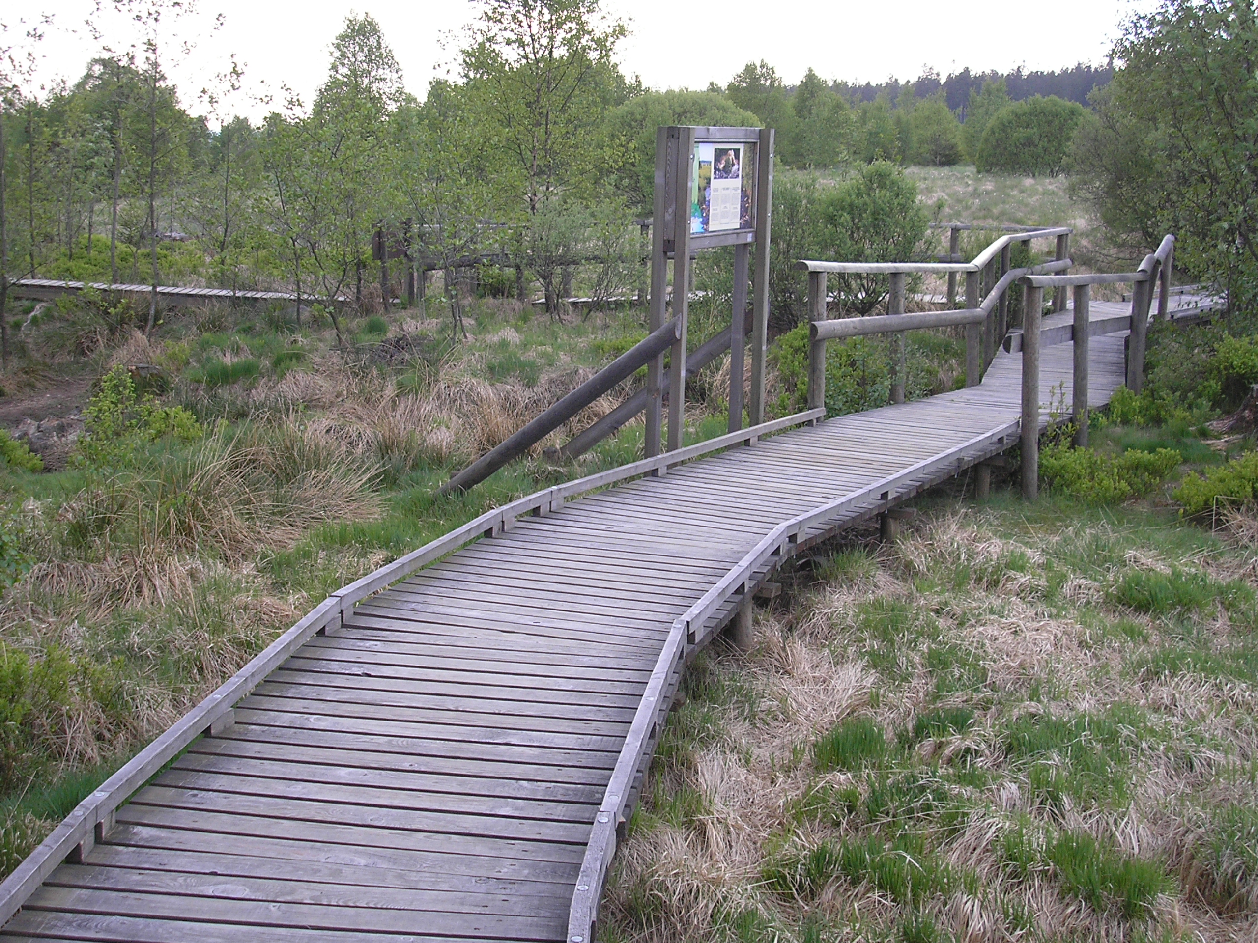 Polleurvenn, East Belgium